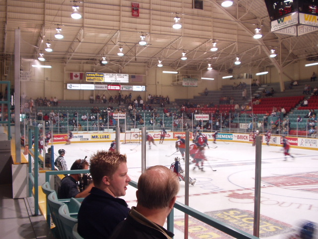 Self-taken photo of the interior of Windsor Arena.